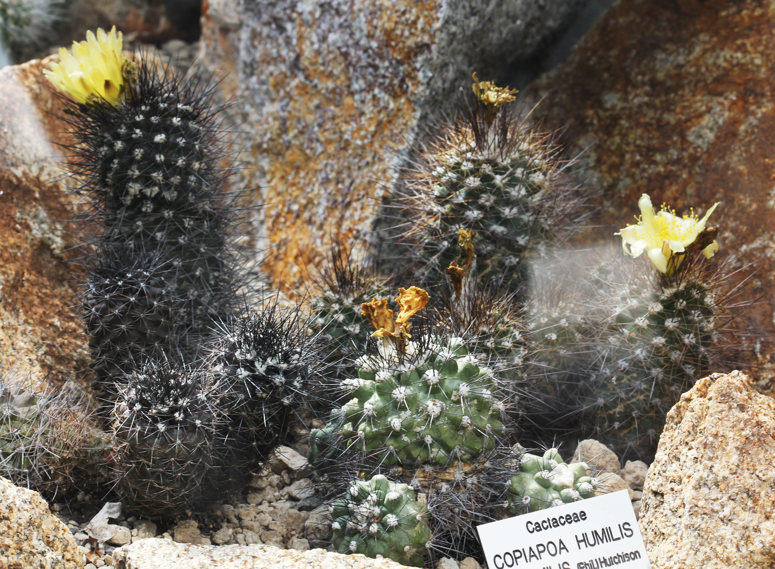 Cactus Copiapoa humilis, (Copiapoa humilis), the Botanical Gardens of Charles University, Prague, Czech Republic